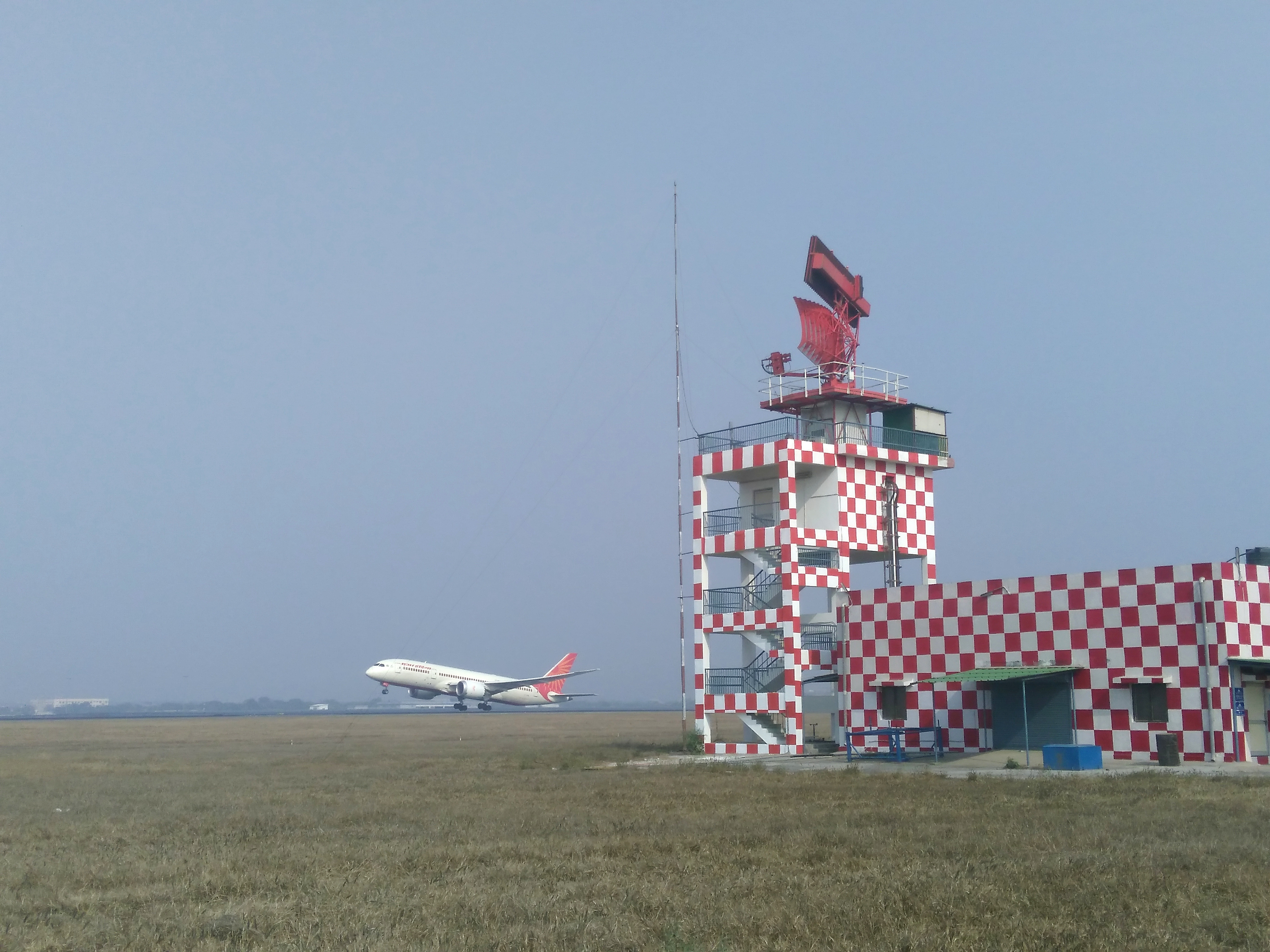 Delhi PSR/MSSR radar seems looking towards an aeroplane taking off. The radar antenna has lower Primary radar antenna with upper Secondary radar antenna in red color.